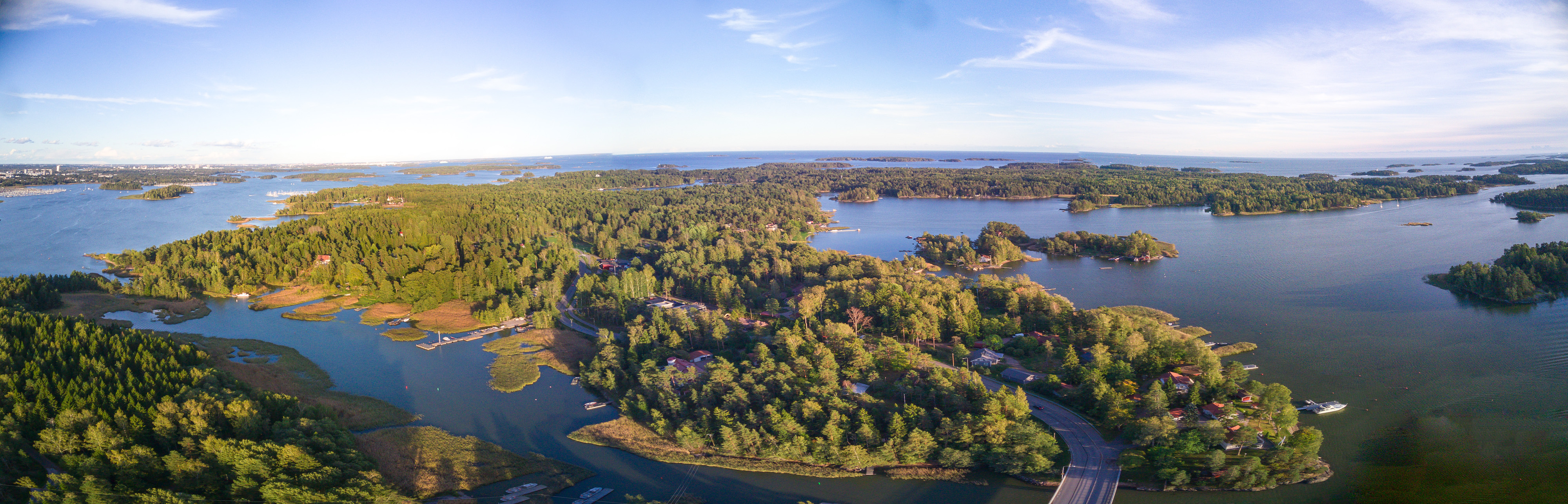 Suvisaaristo archipelago viewed from north. Suino island in the foreground, Suinonsalmi strait at the bottom of the image